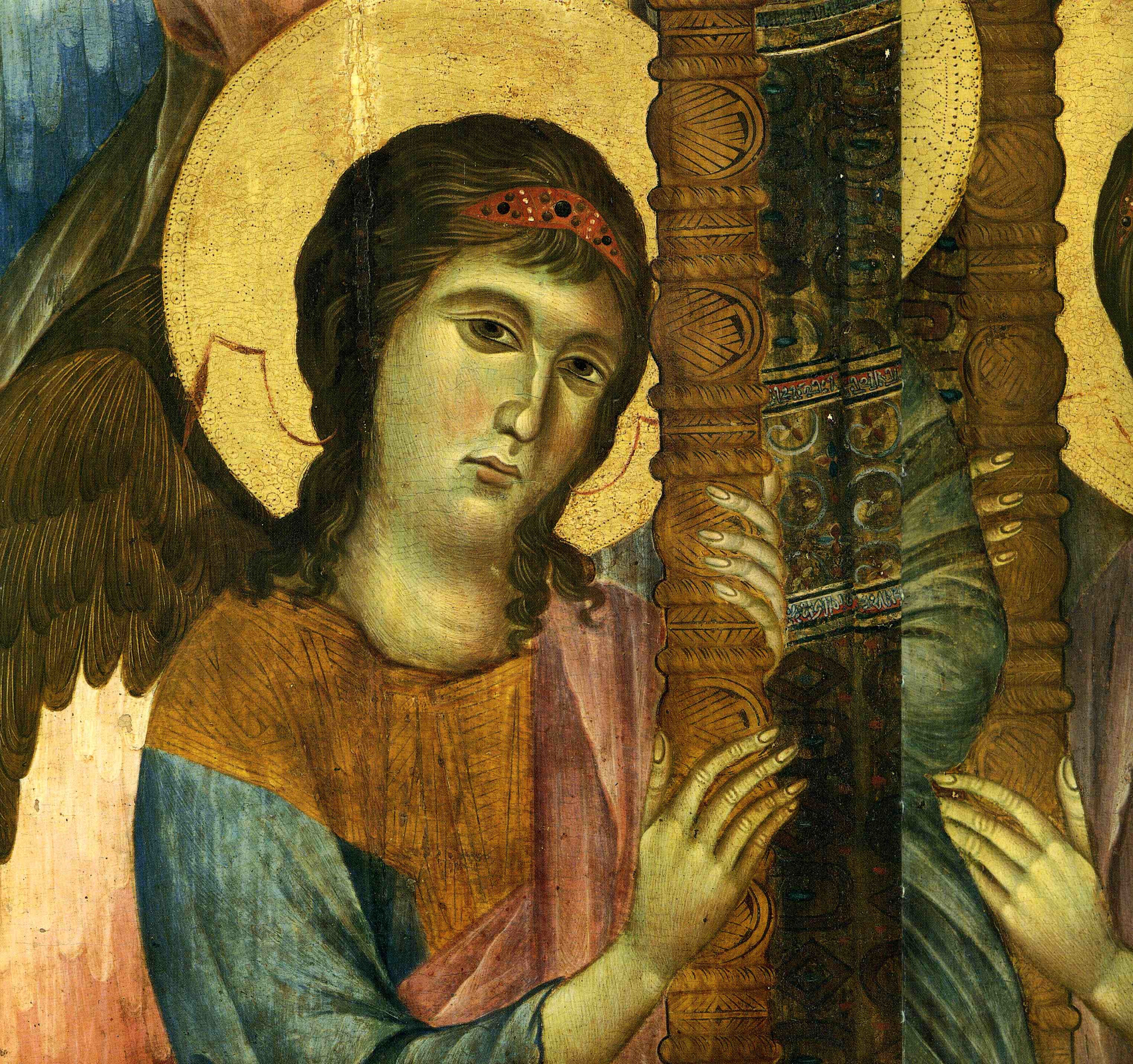 Maestà of the Louvre, detail of the Angel